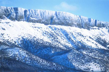 Snow-covered ridges of the Abert Rim, Oregon, USA